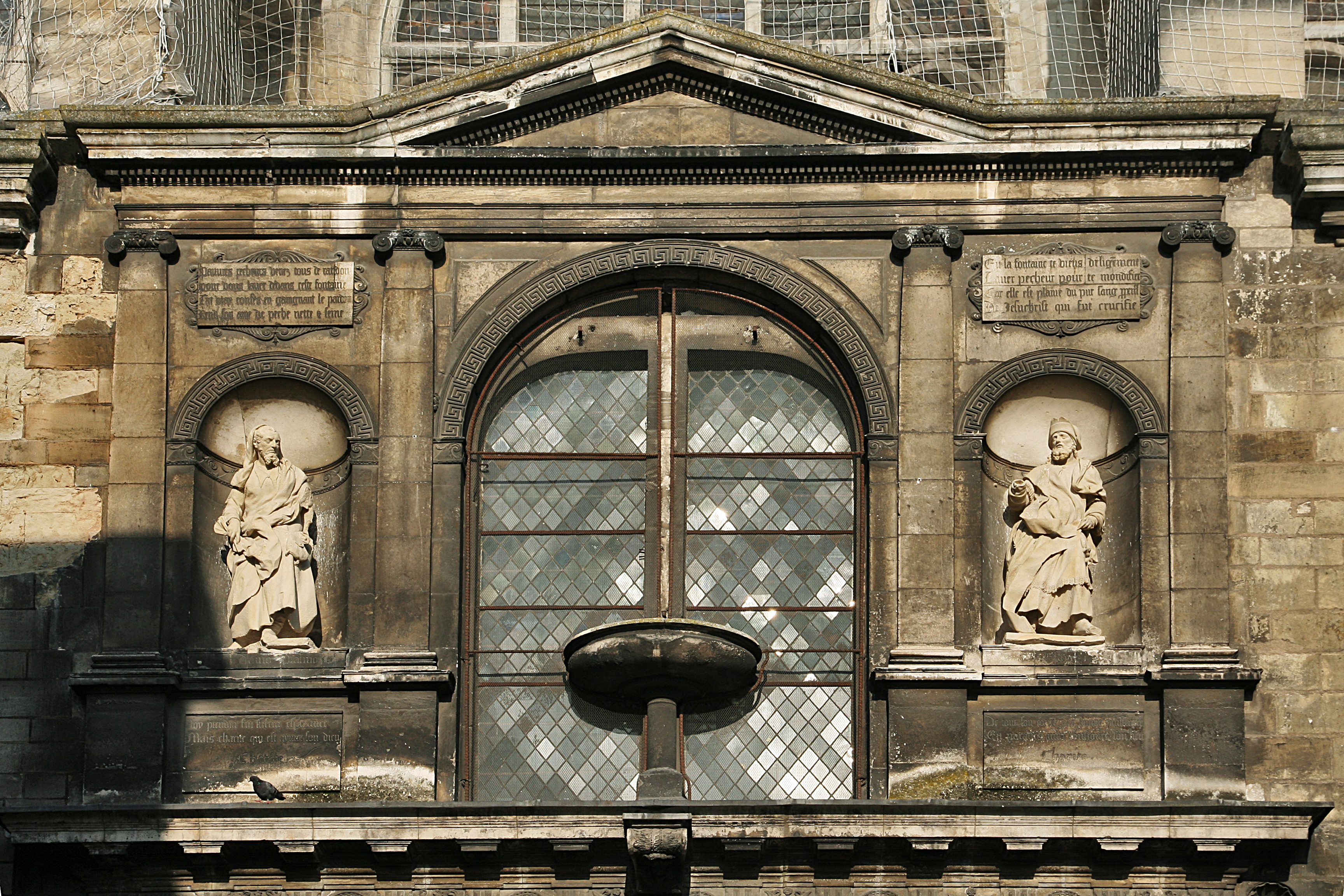 Statues de David et Isaie sur le portail sud